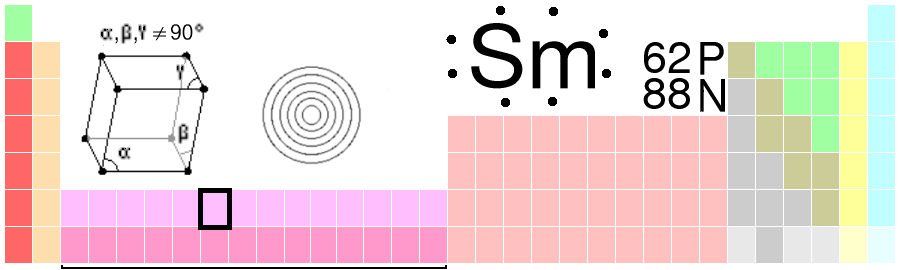 This image was copied from . The original description was: Samarium table image created for Wikipedia by schnee on June 23 2003, 19:20 UTC.